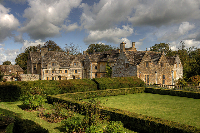 Chantmarle Manor (5) View from the gardens looking north east.